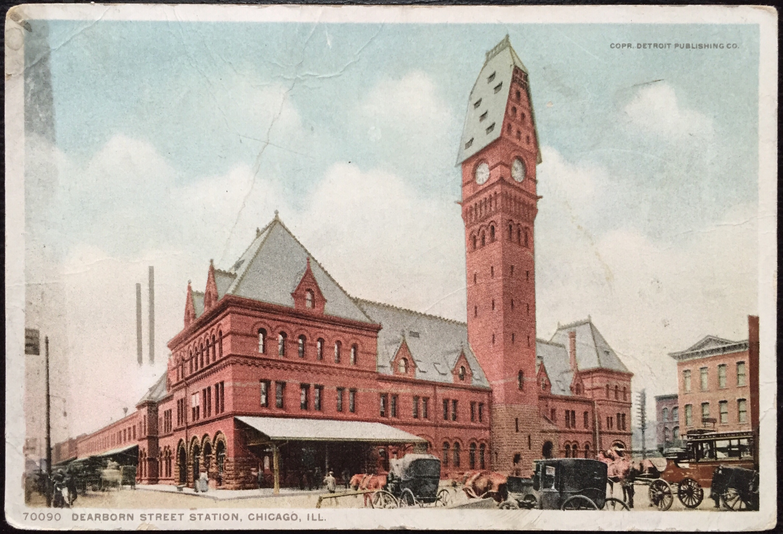 "Dearborn Street Station, Chicago, Ill." Postcard published by Detroit Publishing Co., Detroit, MI, ca. 1907.